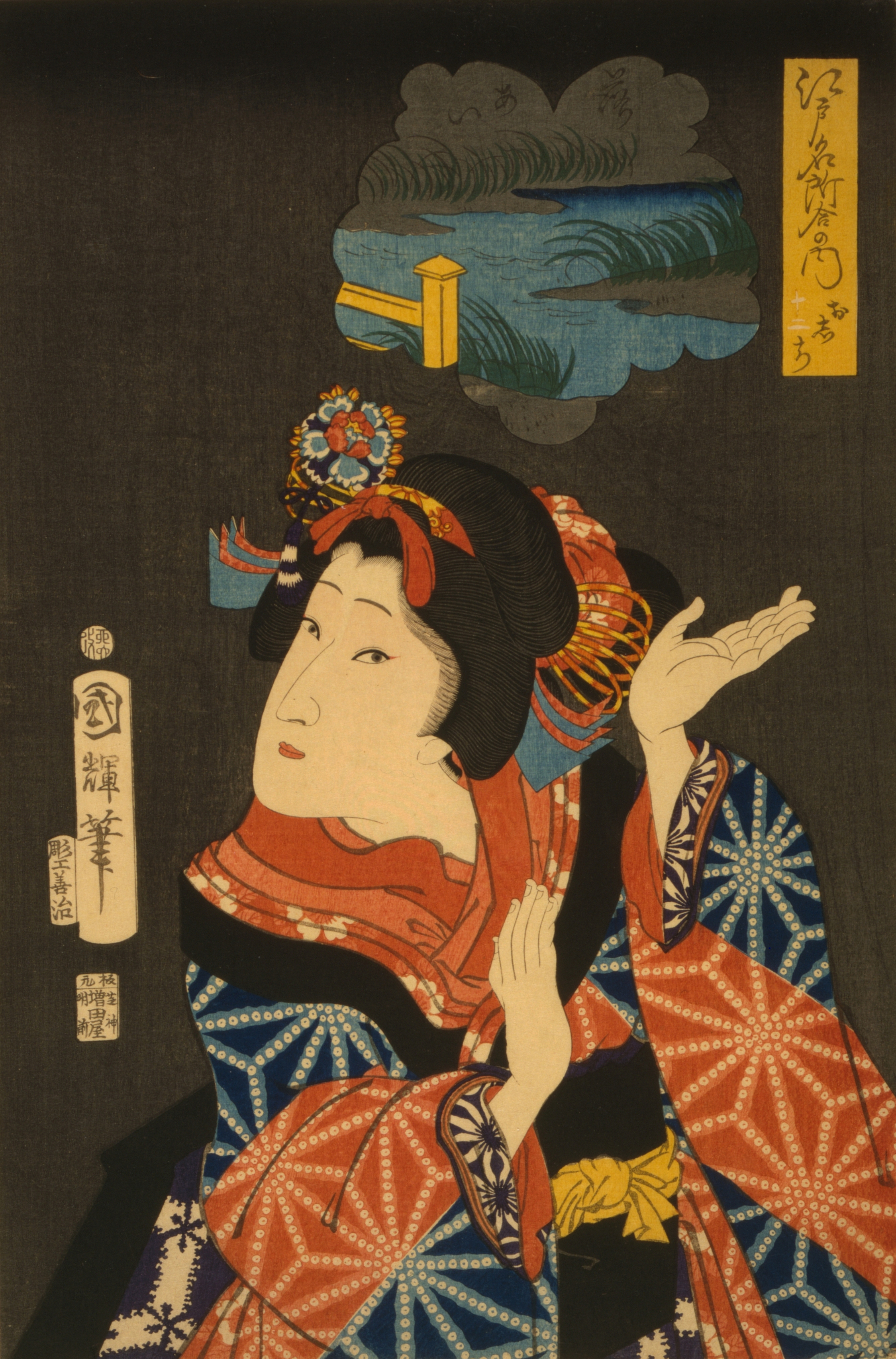 Portrait of Yaoya Oshichi (ca. 1667-1683) by Utagawa Kuniteru II(1830-1874).LOC data: Image of incendiary Oshichi. Includes vignette image (koma-e) above her head showing a famous place in Edo known as Ai no Uchi. 1 print : woodcut, color, 38 x 25.4 cm. Japan : Masuda Shop before the Temple of the Shiba Shinmei, 1867 (Hori Yoshiharu, carver). From the series: Edo meisho awase no uchi: Famous sites of Edo. Format: Vertical Oban Nishikie. Signed Kuniteru hitsu. Seal of carver Hori Yoshiharu and seal reading Masaduya hanmoto Shiba Shinmei mae (publisher's seal) stamped on print. No NAR; Lane, p. 296. Nichibunken: Utagawa Kuniteru.